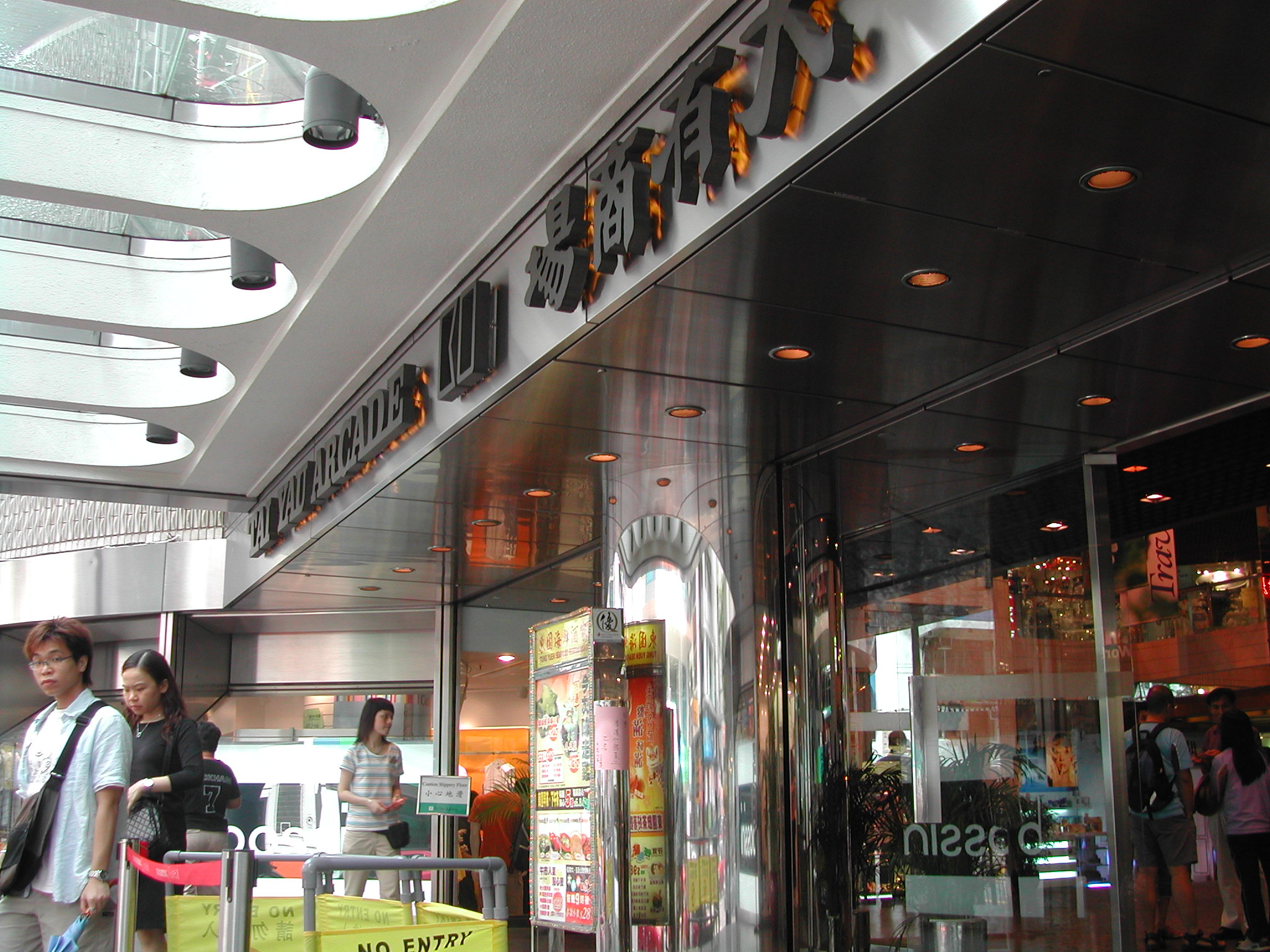 Wan Chai old shopping mall